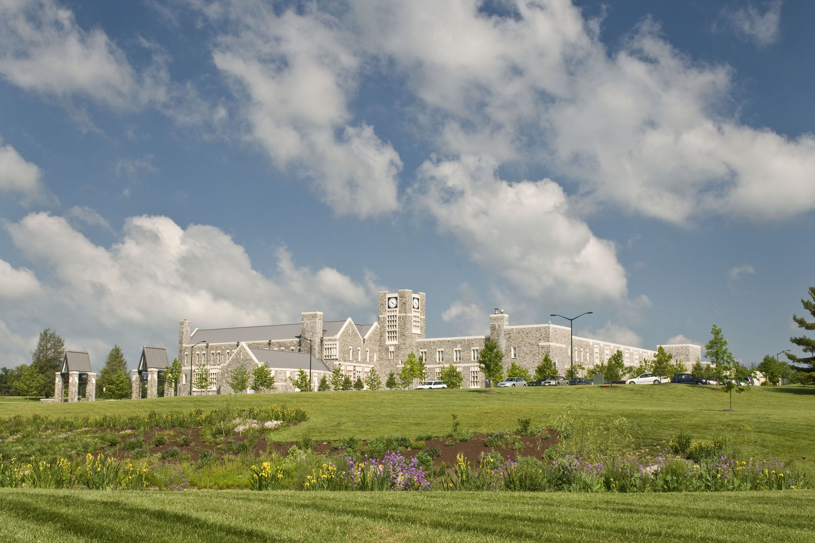 The Inn at Virginia Tech, a school-owned hotel and conference center built in 2005.[1]